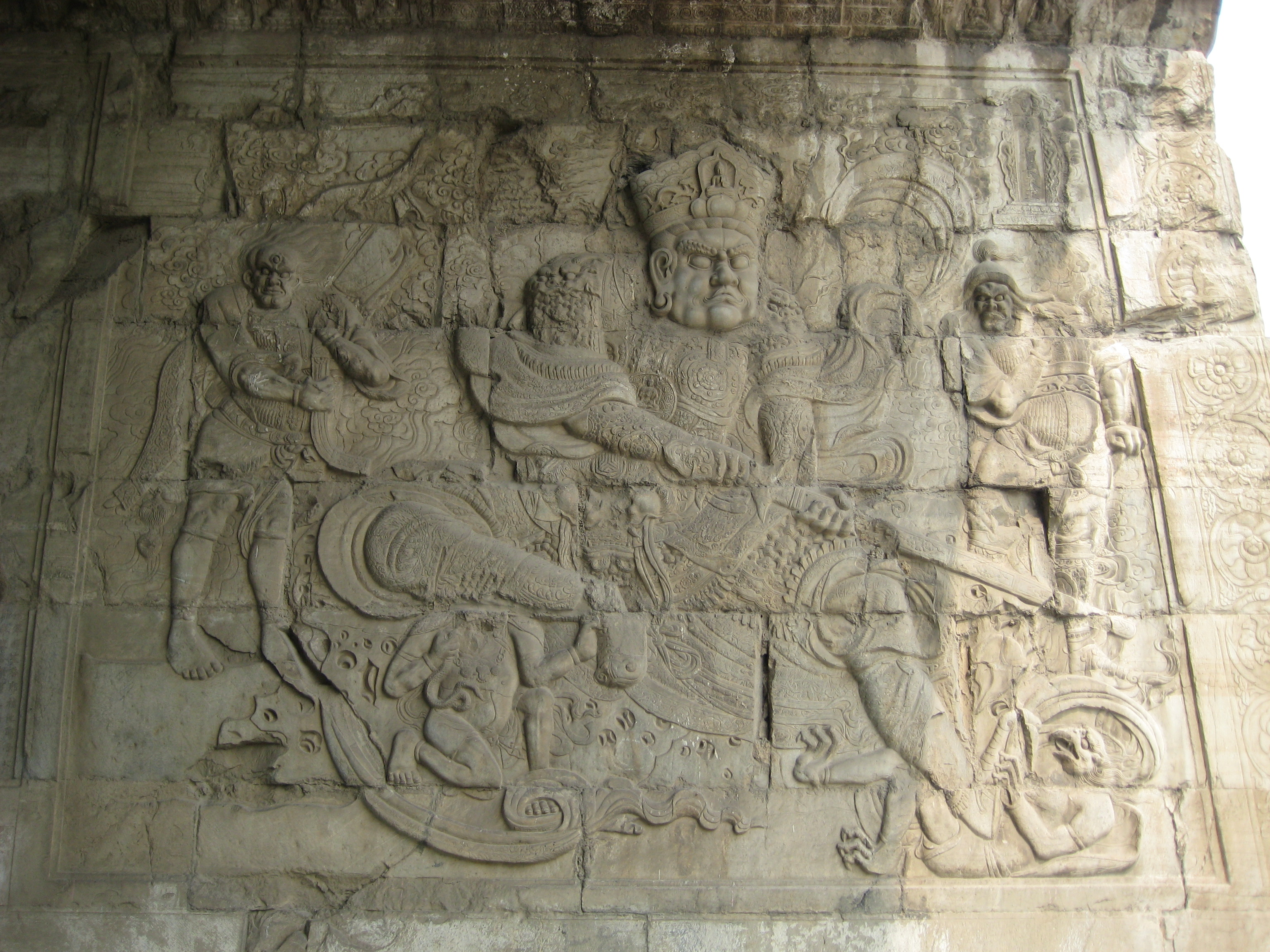 Relief carving of the Deva King of the South (Virūḍhaka 增長天王) on the east interior wall of the Cloud Platform at Juyongguan. 14th century art of the Yuan Dynasty.